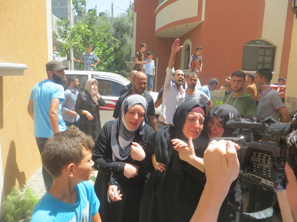 Description from B'Tselem source: "Gaza Strip, July 2014: A constant state of emergency According to B’Tselem’s initial inquiries, by yesterday evening (14 July 2014) at least 172 Palestinians had been killed in Israel’s airstrikes on the Gaza Strip. This number includes 34 minors (eight younger than 6 years old), 20 women (under 60) and 10 senior citizens. Our field researchers in Gaza have been working ceaselessly, night and day, to document events. Our field researchers in the West Bank have been lending a hand by collecting testimonies over the phone. Our office staff has been processing and verifying information, and trying to convey the incomprehensible scope of the infringement on human rights. The following seven photos were taken by our field workers in Gaza. They include images from the Kaware’ family home, where eight people, including six minors, were killed, and from the Hamad family home where six members of that family, including one girl – a minor – were killed." Photo caption from source: "The Hamad home before the funeral." Caption from associated photo for background "The home of 'Abd al-Hafez Hamad. Six members of this family were killed when the house was bombed on the night of 8 July 2014. The IDF Spokesperson said the attack targeted Hafez Hamad, and made no reference to the other casualties."